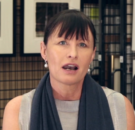 Catharine Lumby is an Australian academic, author and journalist, currently Professor of Media in the Department of Media, Music, Communication and Cultural Studies at Macquarie University. In this video she was taking about Bill Henson for ArtBank and the video has a creative commons license according to Google image search